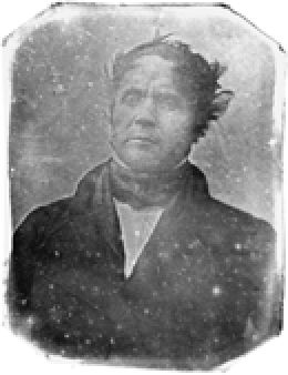 Le plus ancien portrait photographique conservé est attribué à Louis Daguerre et est intitulé « M. Huet 1837 »